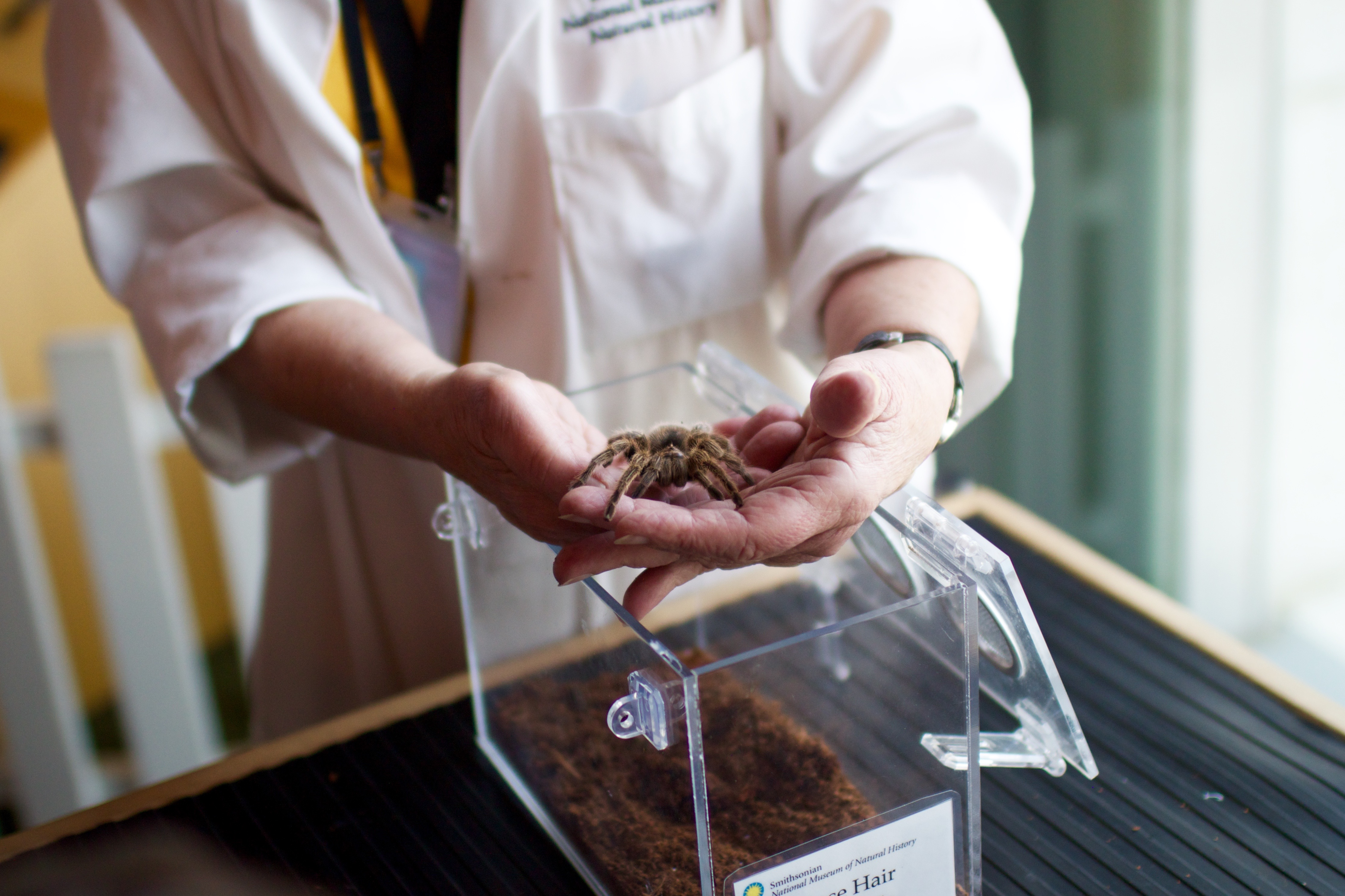 Smithsonian Museums